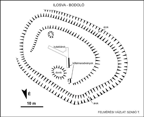 Survey sketch by Szabó T.